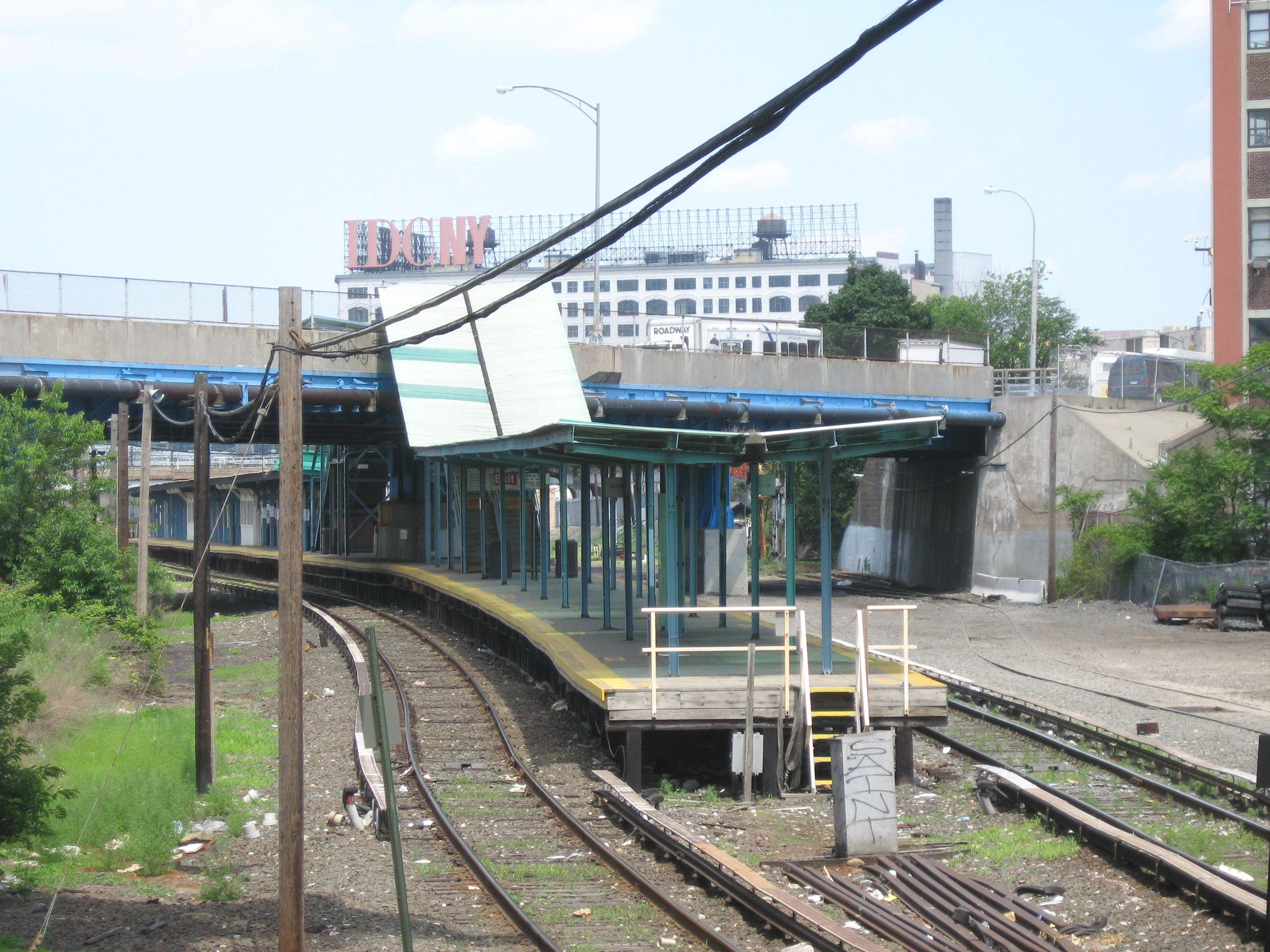 Looking northeast, full zoom, from 31st Street pedestrian stair under LIE, into Hunterspoint Avenue (LIRR station) on a summer early afternoon.